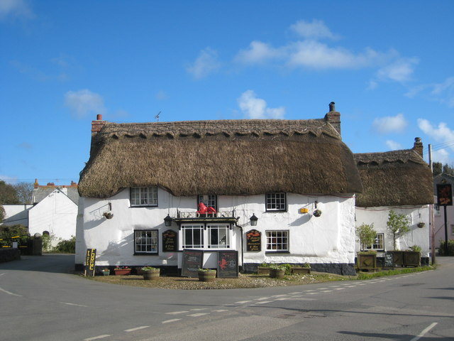 The Red Lion pub in Mawnan Smith